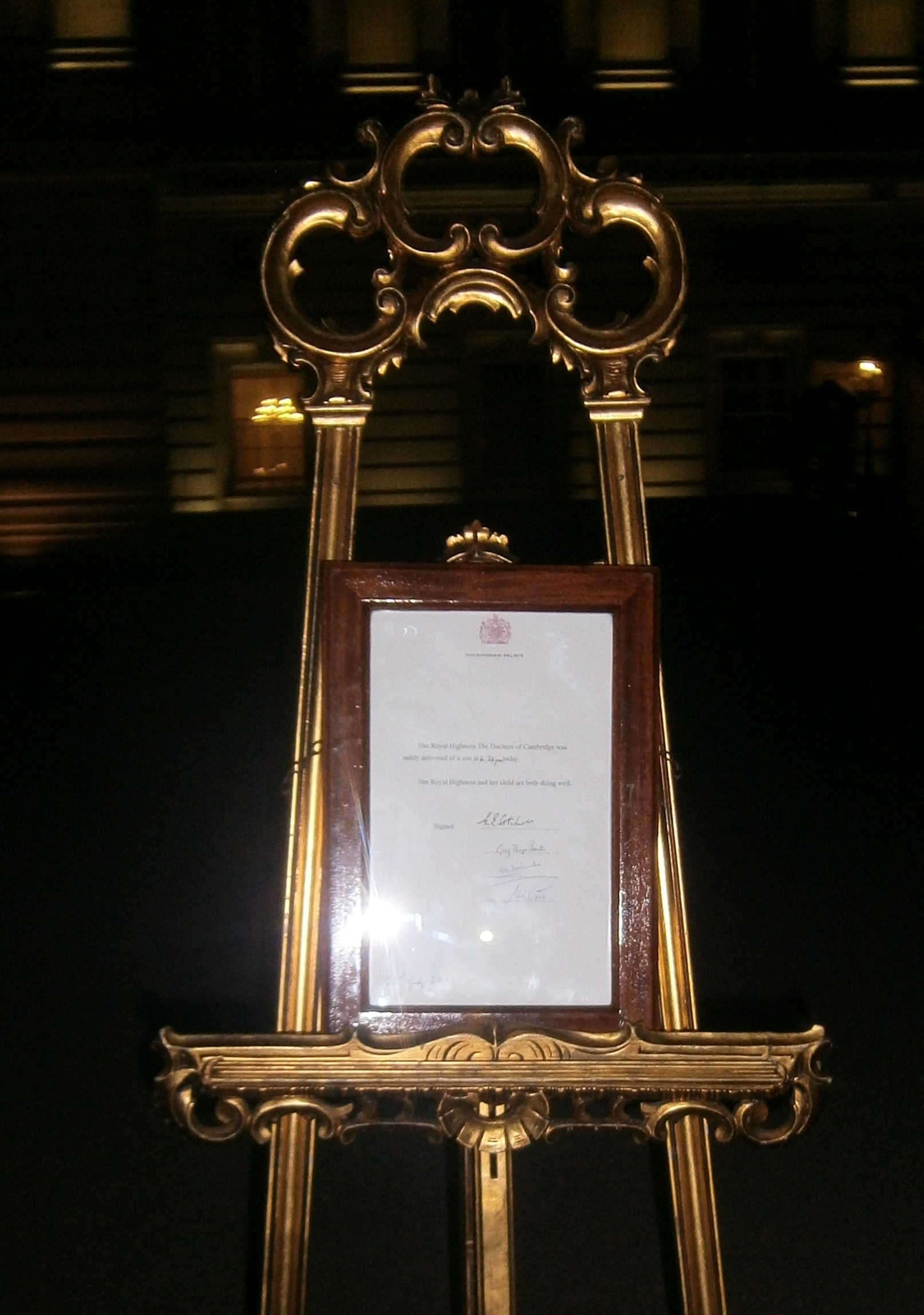 Easel outside Buckingham Palace announcing the birth of Prince George of Cambridge, third in line to the throne. The announcement read: 'Her Royal Highness The Duchess of Cambridge was safely delivered of a son at 4.24pm today. Her Royal Highness and her child are both doing well.'